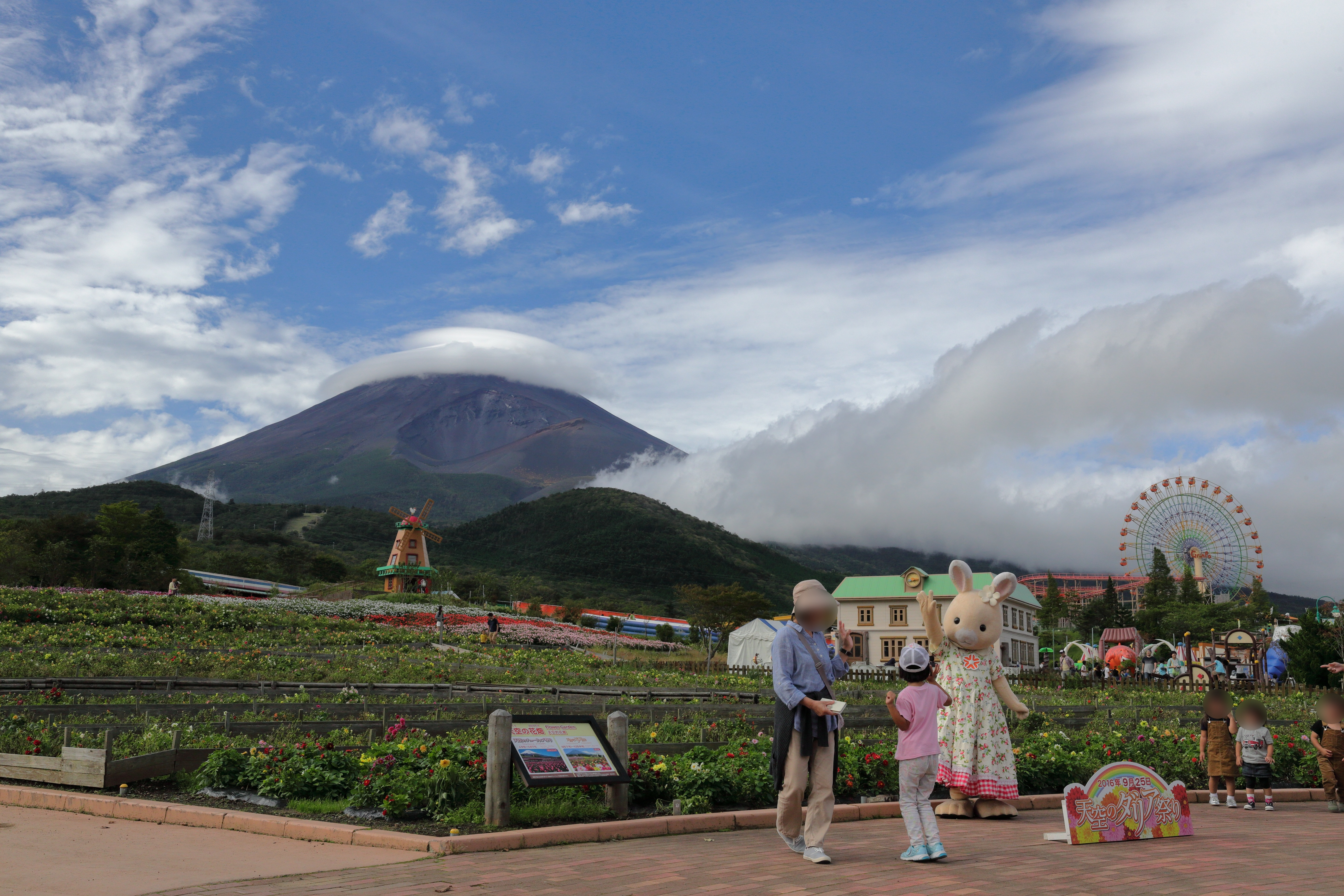 A view of Grinpa with Mount Fuji in Susono, Sizuoka Prefecture, Japan.